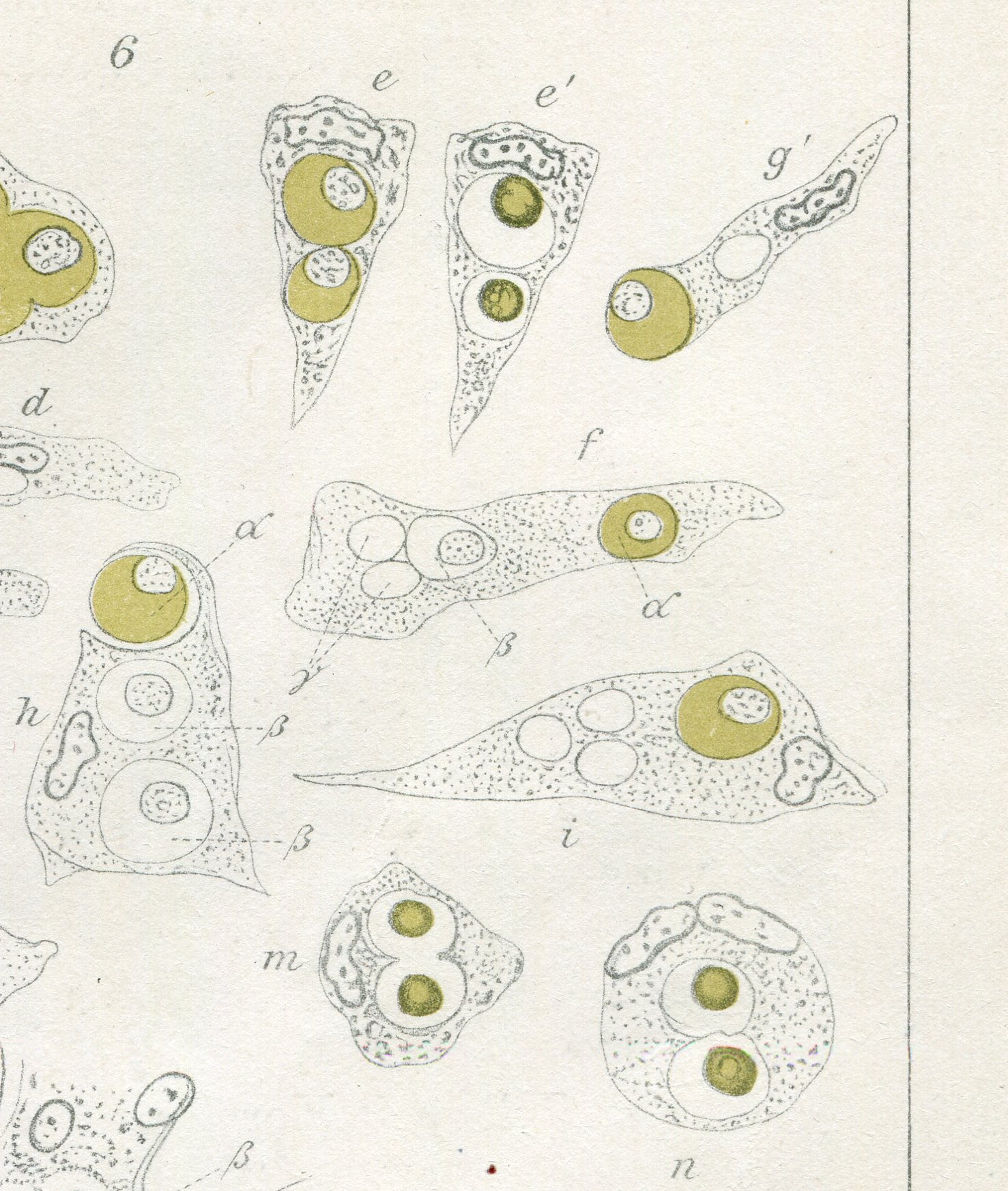 The history of haematopoietic stem cells dates back to the beginning of the Institut of Pathology Koenigsberg. This picture belongs to a publication of Ernst Neumann (1834 - 1918) from 1874 (E. Wagners Archiv der Heilkunde Bd. XV, 1874). It is the first draft, showing the development of the colorless hematopoietic stem cell (6fß) to the Erythroblast (6fa´).